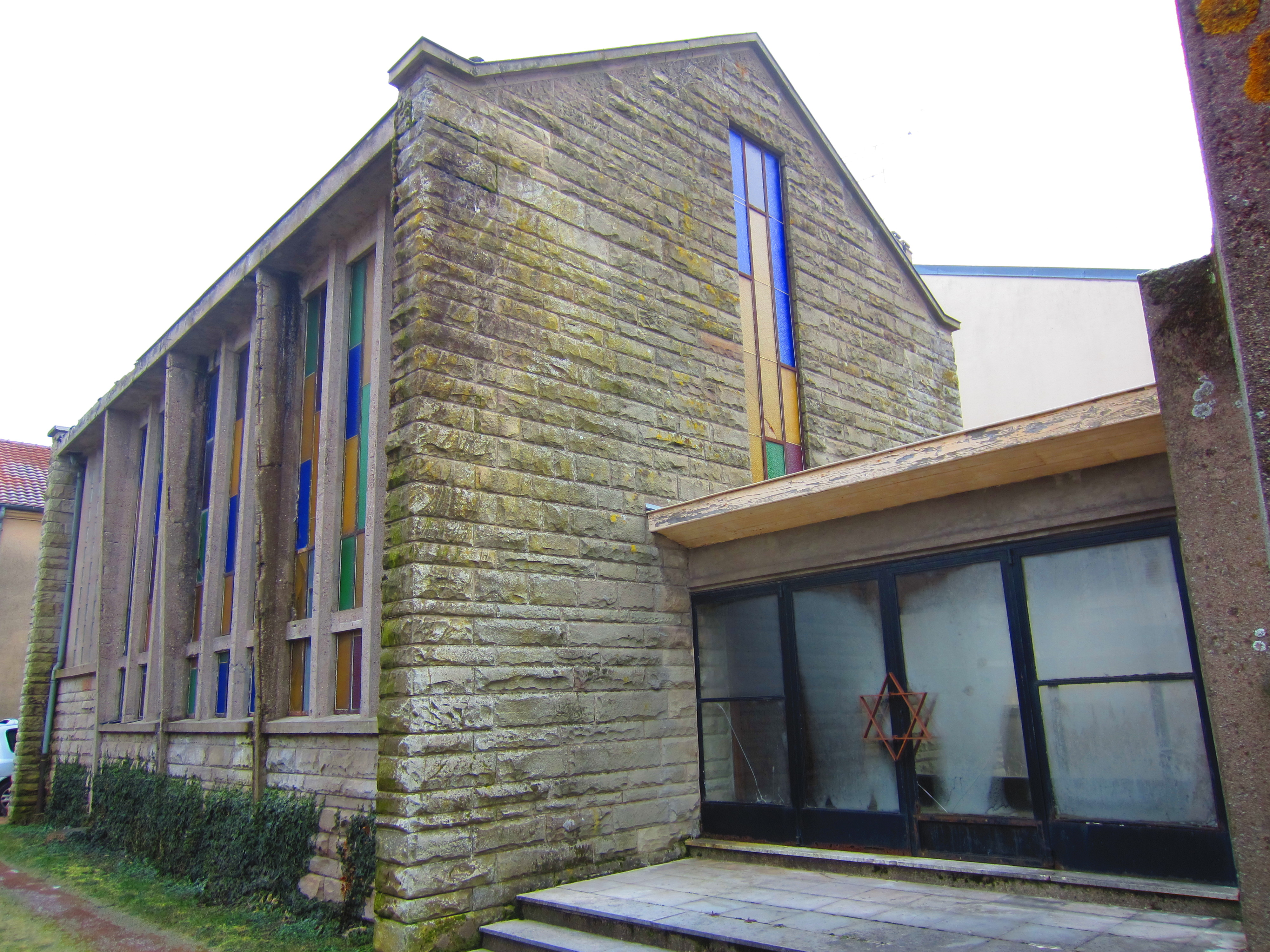 Synagogue Dieuze